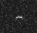 Bistatic delay-Doppler image from Sep. 7. Resolution is 3.75 m x 50 Hz. This is a 16-second integration that spans one full rotation by the asteroid. The asteroid rotates so rapidly and it's so small that the radar images do not show any detail. Range increases downward and Doppler frequency increases to the right. At the time of the observations, the asteroid was slightly more than one lunar distance from Earth.